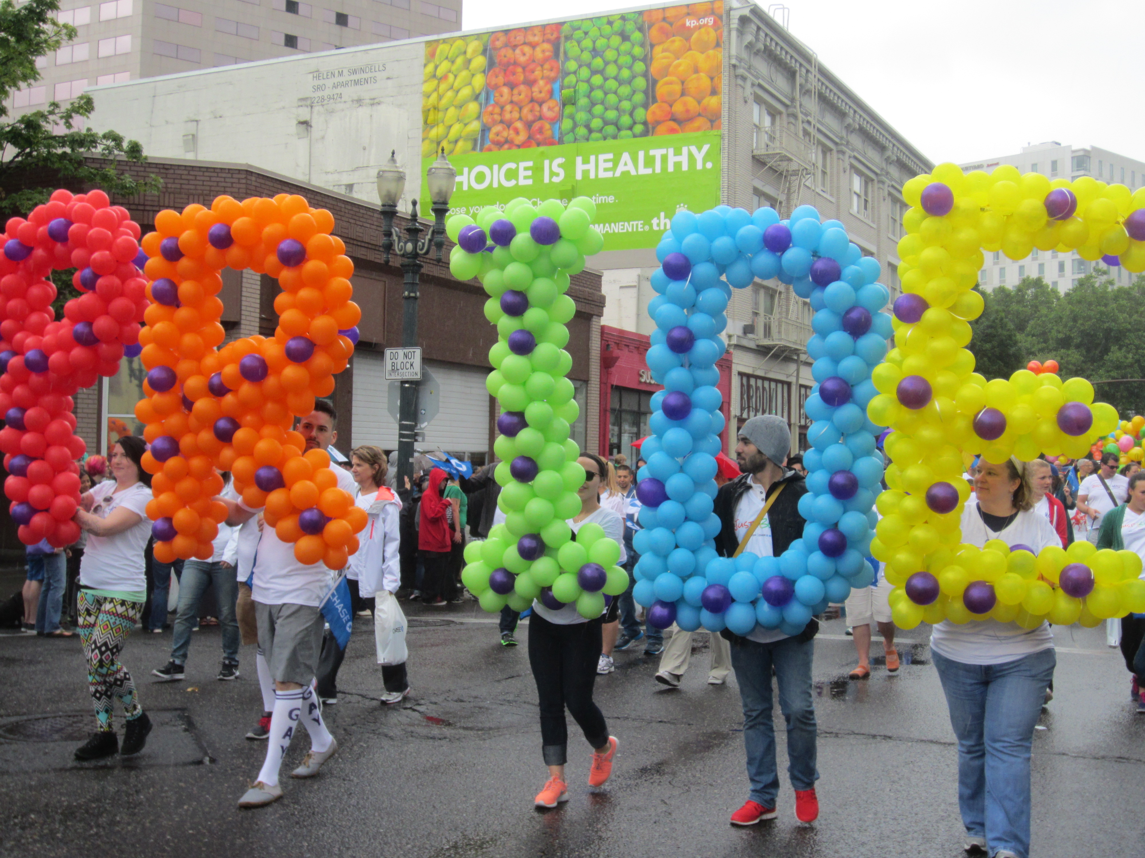 Portland Pride Parade (Oregon), June 14, 2014